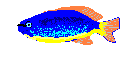 Draft of Chrysiptera taupou fish